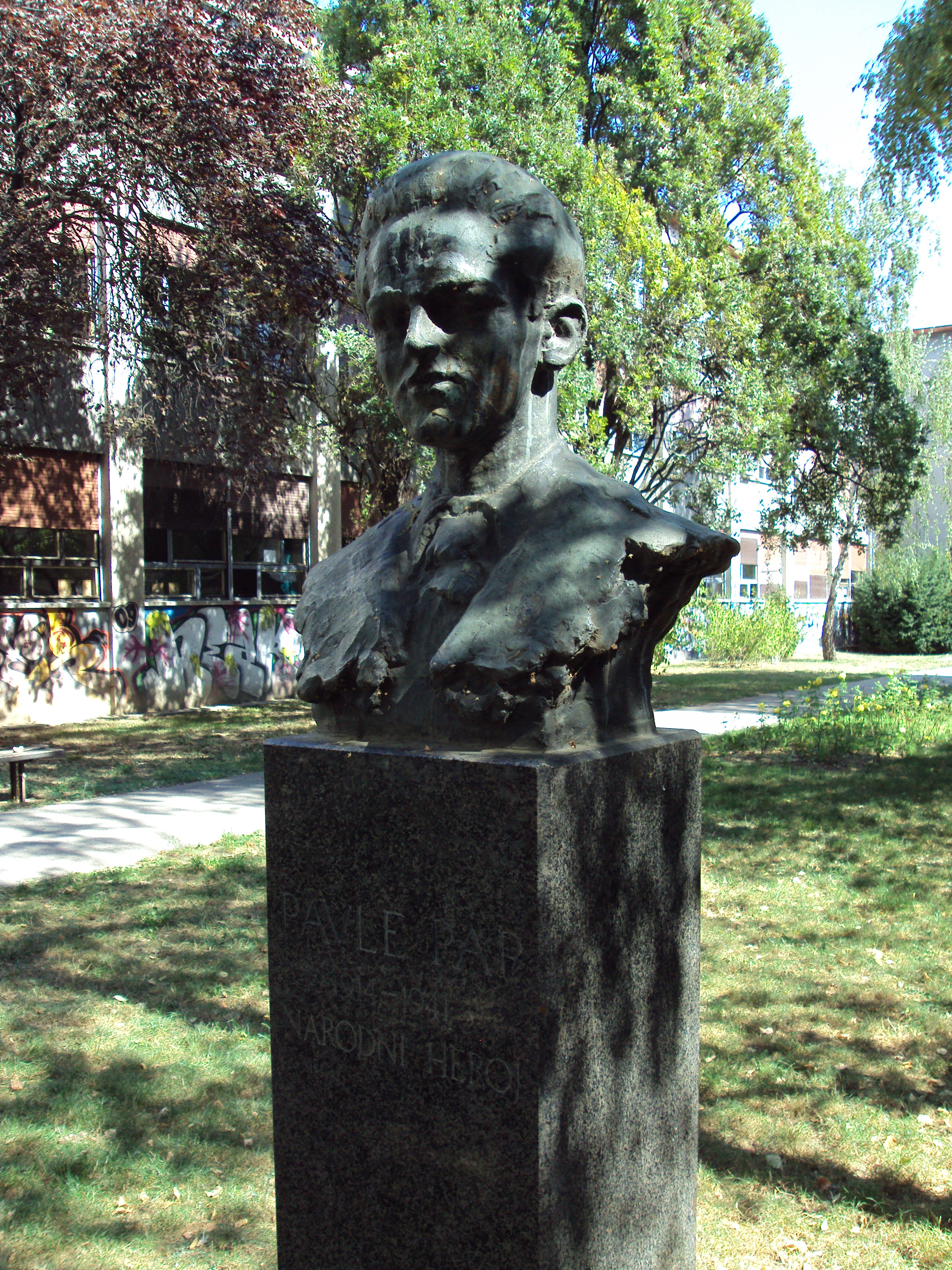 Bust of People's Hero of Yugoslavija, Pavle Pap (1914-1941) in Zagreb.